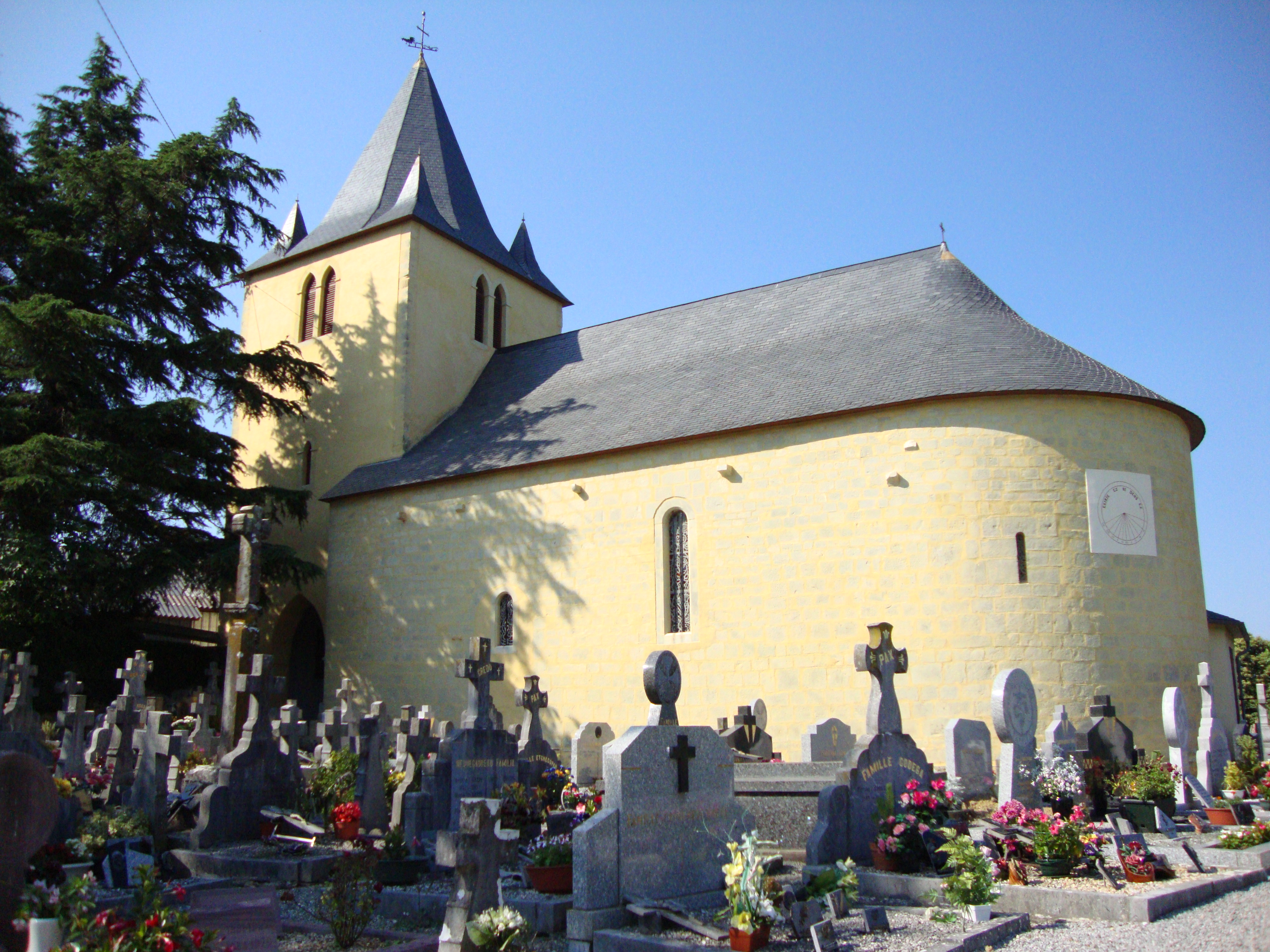 Alçay (Alçay-Alçabéhéty-Sunharette, Pyr-Atl, Fr) church and cemetery where some basque steles are visible